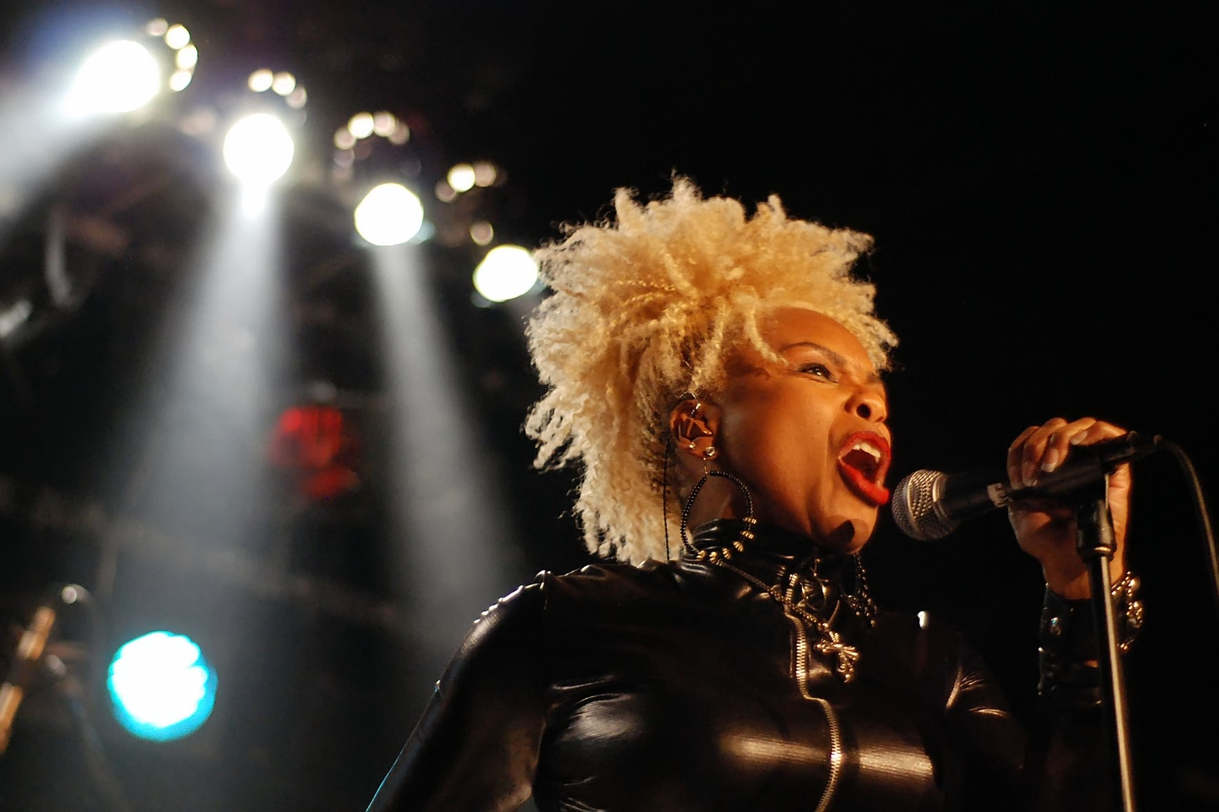 Joyce Kennedy